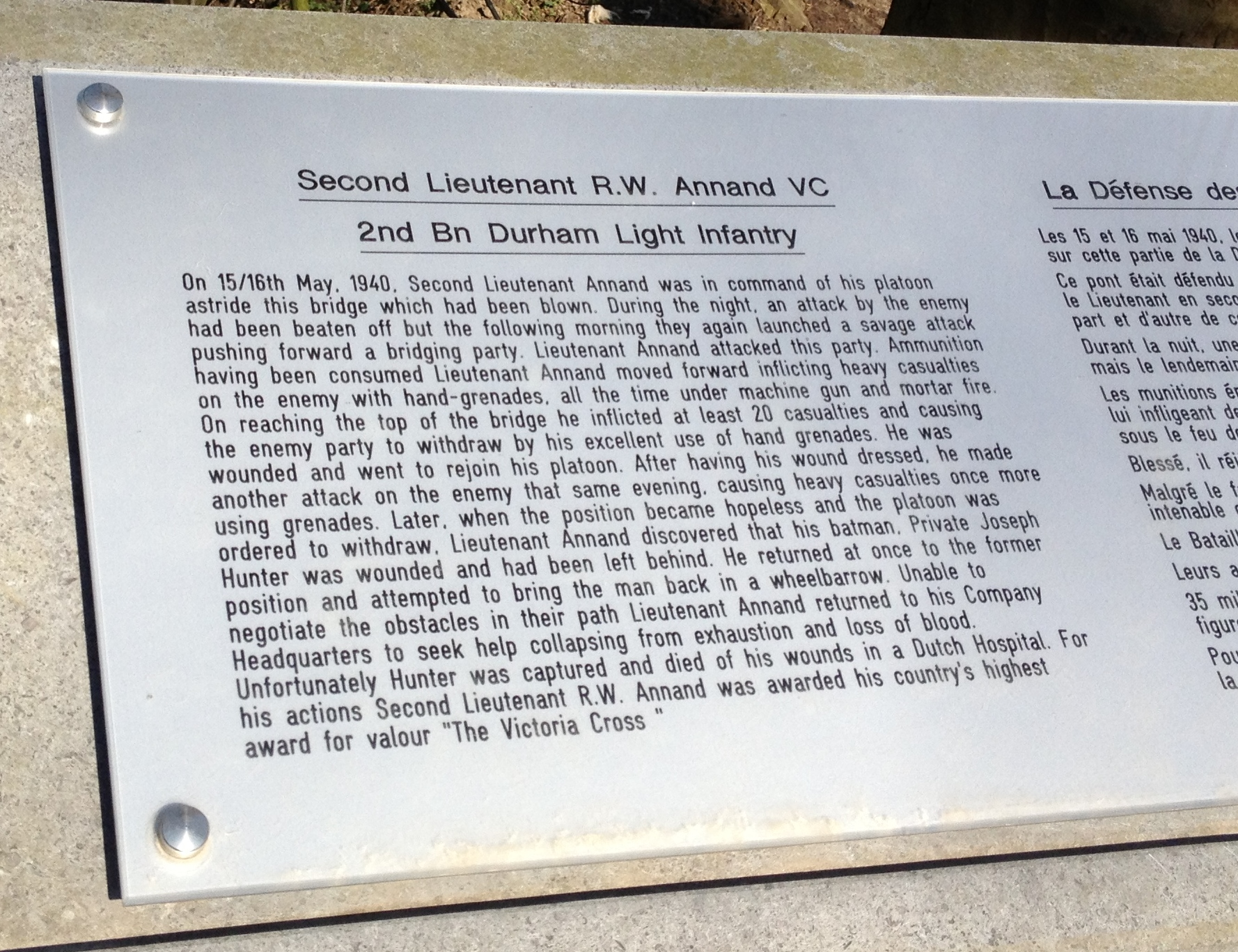 Plaque to Second Lieutenant Richard Annan on the bridge over the Dyle River at Gastuche, Belgium where he won the V.C. in May 1940